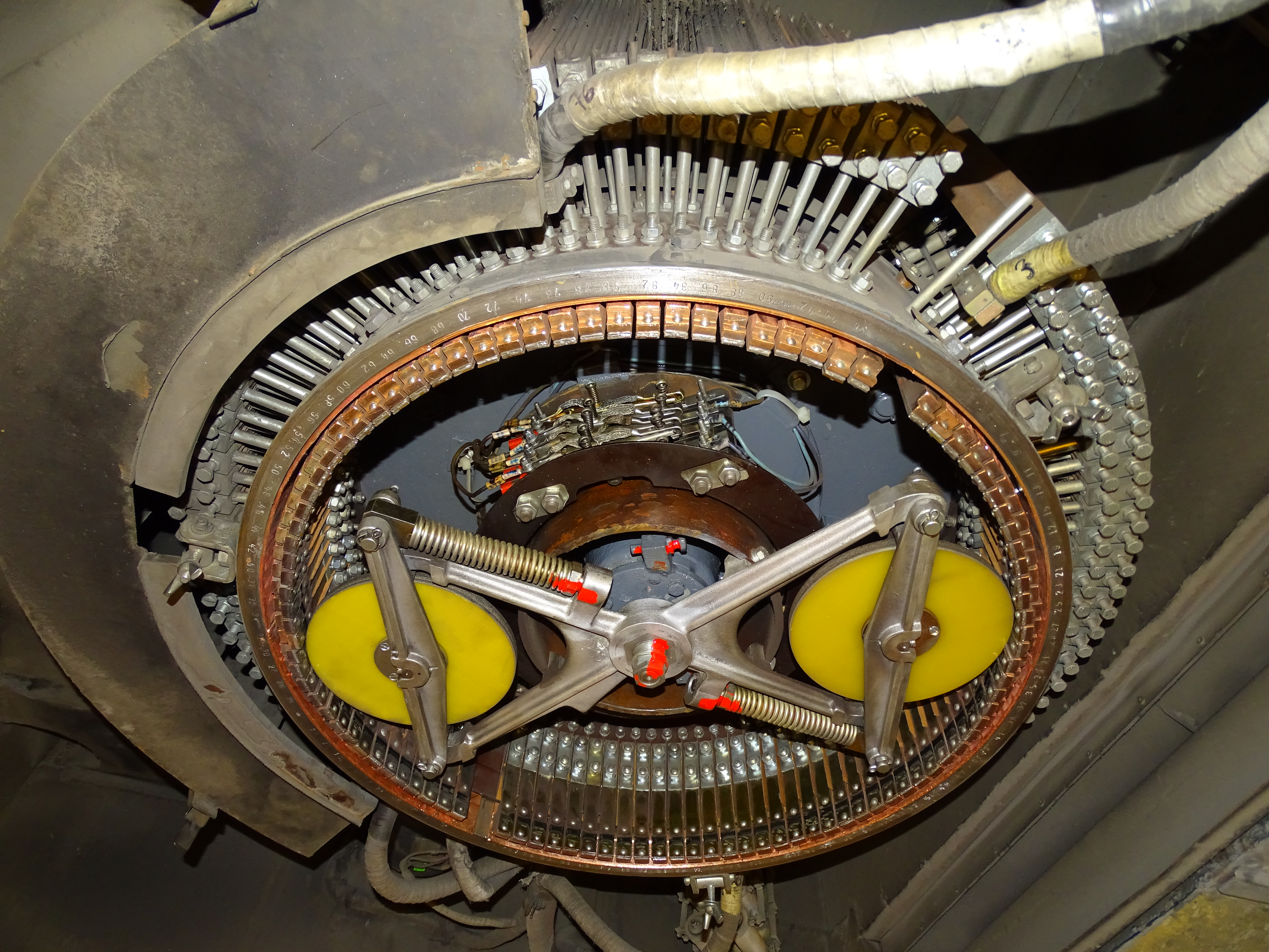 Prague-Strašnice, Czech Republic. Strašnice tram depot, tram T3SUCS, a controller.